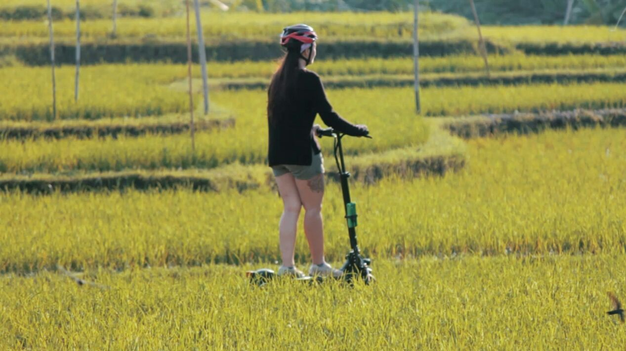 Riding Skutis between ricefields in Bali